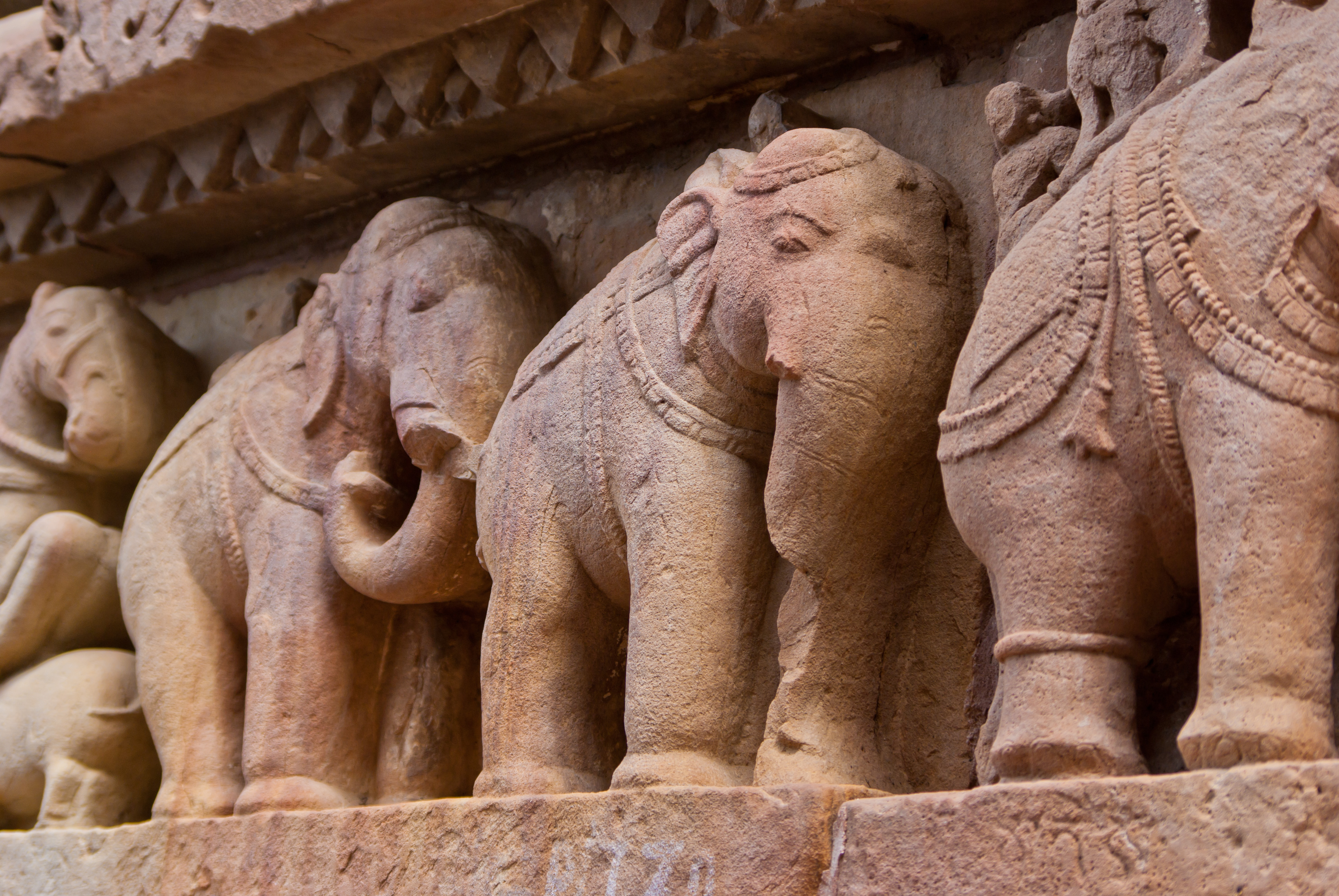 Lakshmana Temple